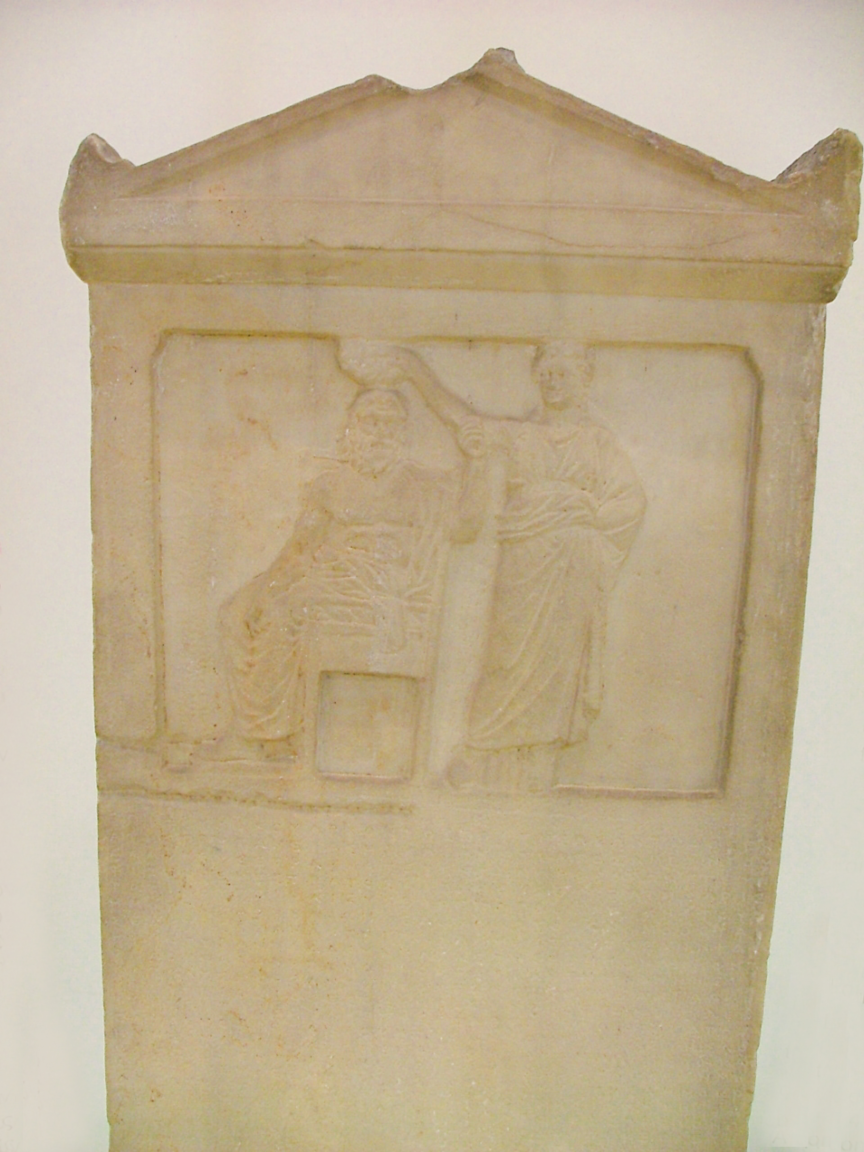 The relief representation depicts the personified Demos being crowned by Democracy. About 336 BC. Ancient Agora Museum in Athens.